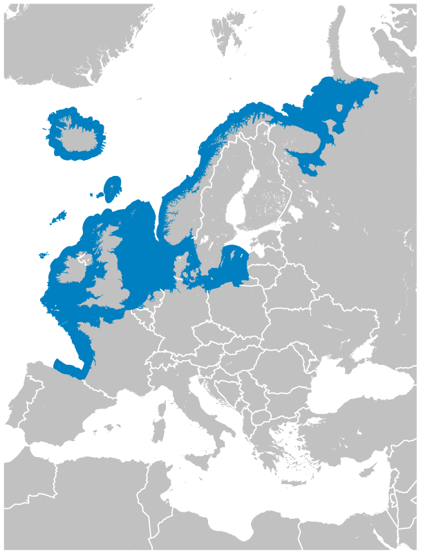 Geographical distribution of the Common Dab Limanda limanda. The map was created using the Generic Mapping Tools, GMT, version 5.1.2.